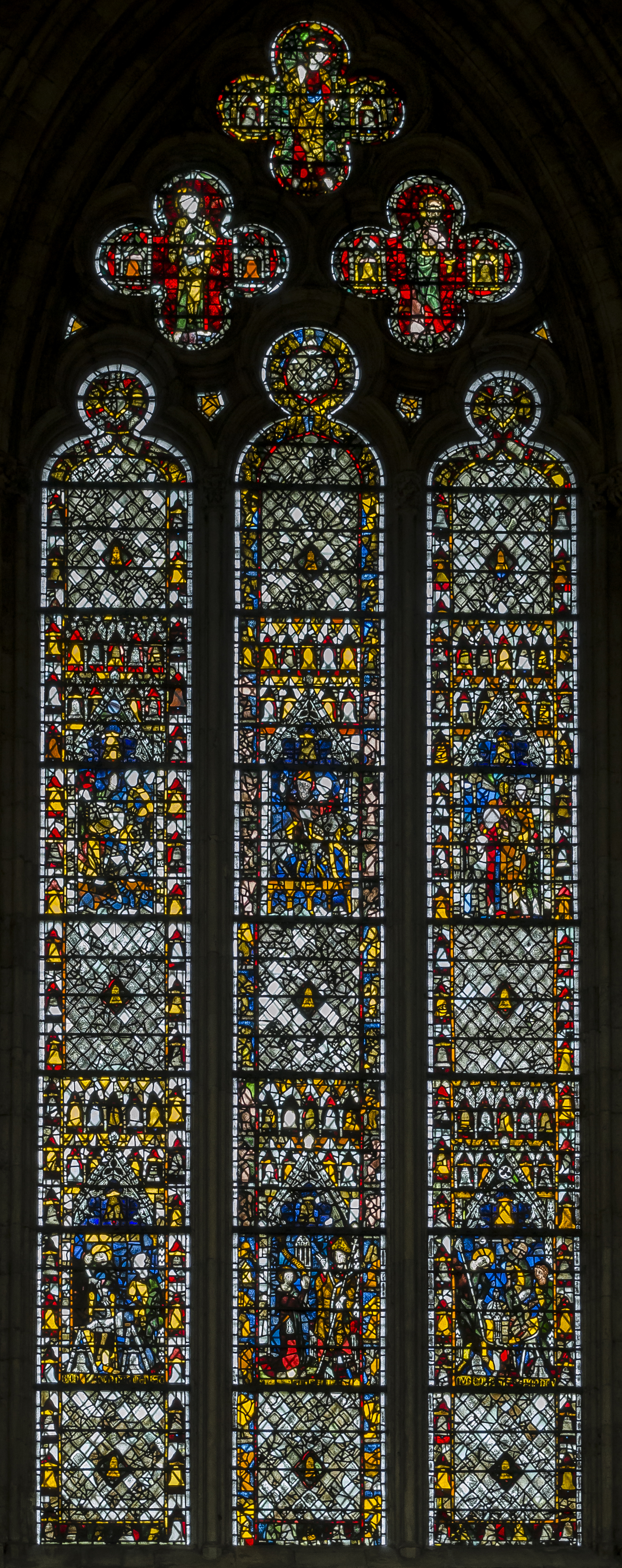 The Bellfounders window, a gift of Richard Tunnoc, a local bell founder and MP.He died in 1330 and is buried in the Minster. 1a–1c Naturalistic grisaille with medallion containing a bell. 2a–3a Two men tuning a bell under a canopy decorated with bells. Inscription: ‘RICH[ARD] TVNNOC ME FIST’. 2b–2c Richard Tunnoc kneeling before St William of York, offering his window, under a canopy. Inscription: ‘RICHARD TVNNOC’. Note the bell on his bag. 2c–3c Two men casting a bell, under a canopy decorated with bells. Inscription: ‘NVR ENIENO FER DEV’. 4a–4c Grisaille with medallions containing bells. 5a–6a, 5b–6b, 5c–6c The Ouse Bridge miracle spread across three lights. St William is riding a white dappled horse and robed in purple chasuble, green dalmatic, mitred and nimbed. He turns round in the saddle and looks to the victims of the disaster and holds his hands up in benediction. In the left panel the middle arches of the bridge are broken down and two men on horseback are being thrown into the river. 7a–7c Grisaille with medallions containing bells. Borders: a and c large bells; b monkeys. Tracery: A1 St Andrew. A2 St Paul. B1 St Peter. Some of the "orange" bells are modern replacements.